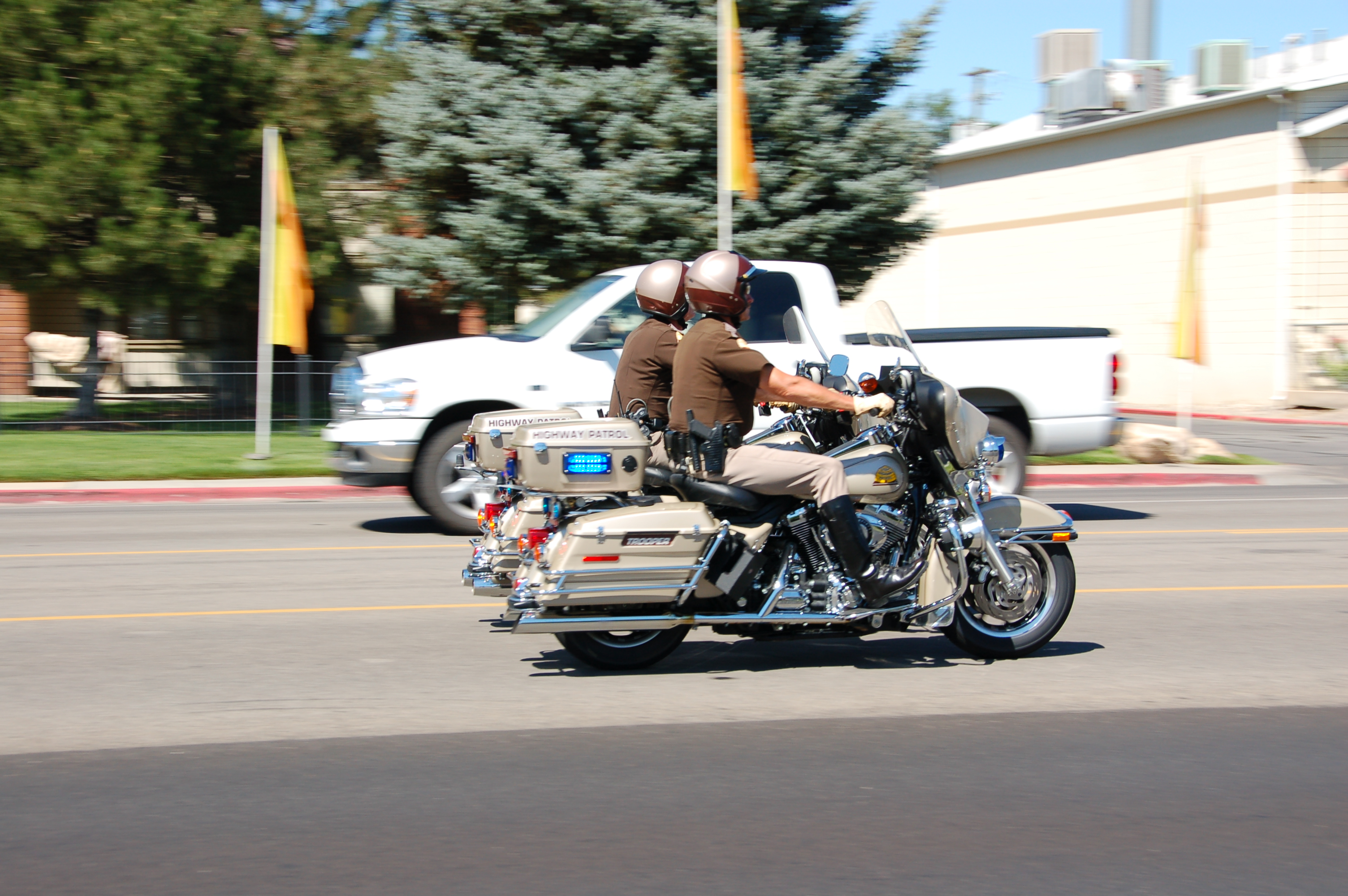 Two Utah Highway Patrol motorcycle officers on patrol.